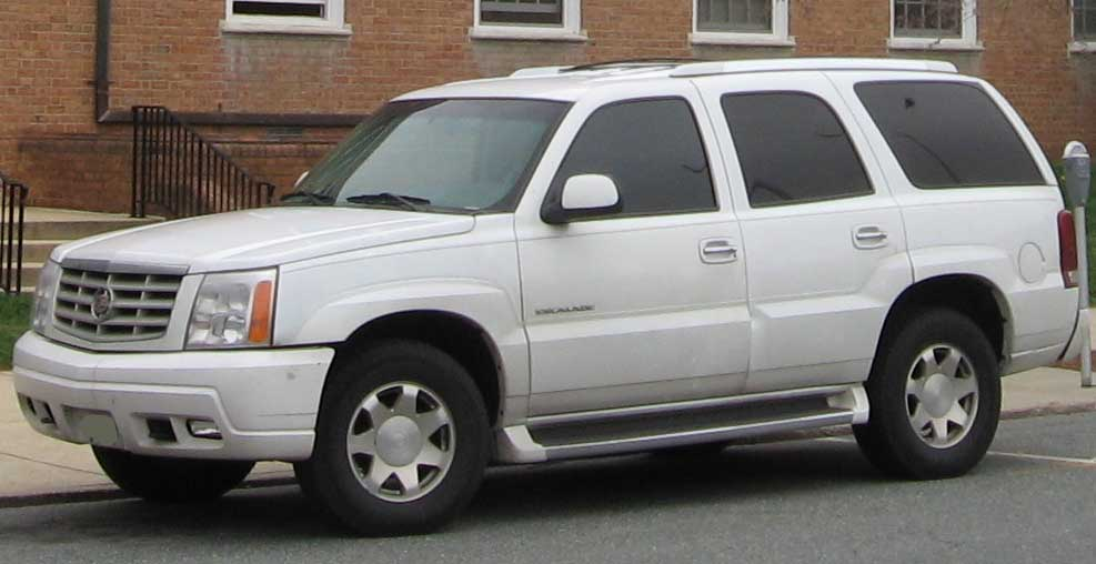 2002-2006 Cadillac Escalade photographed in College Park, Maryland, USA.